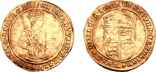 Edward VI of England. 1547-1553. AV Half Sovereign (5.22 g, 5h). Third period, 1551-1553. Tower mint; mm: tun. EDWARD VI D' G' AGL' FRANCI' Z HIB' REX, crowned and armored half-length bust right, holding sword and orb IhS' AVTEM TRANSIENS PER MEDI' ILLOR' IBAT, crowned coat-of-arms; E R at sides. Schneider 695; North 1928; SCBC 2451.